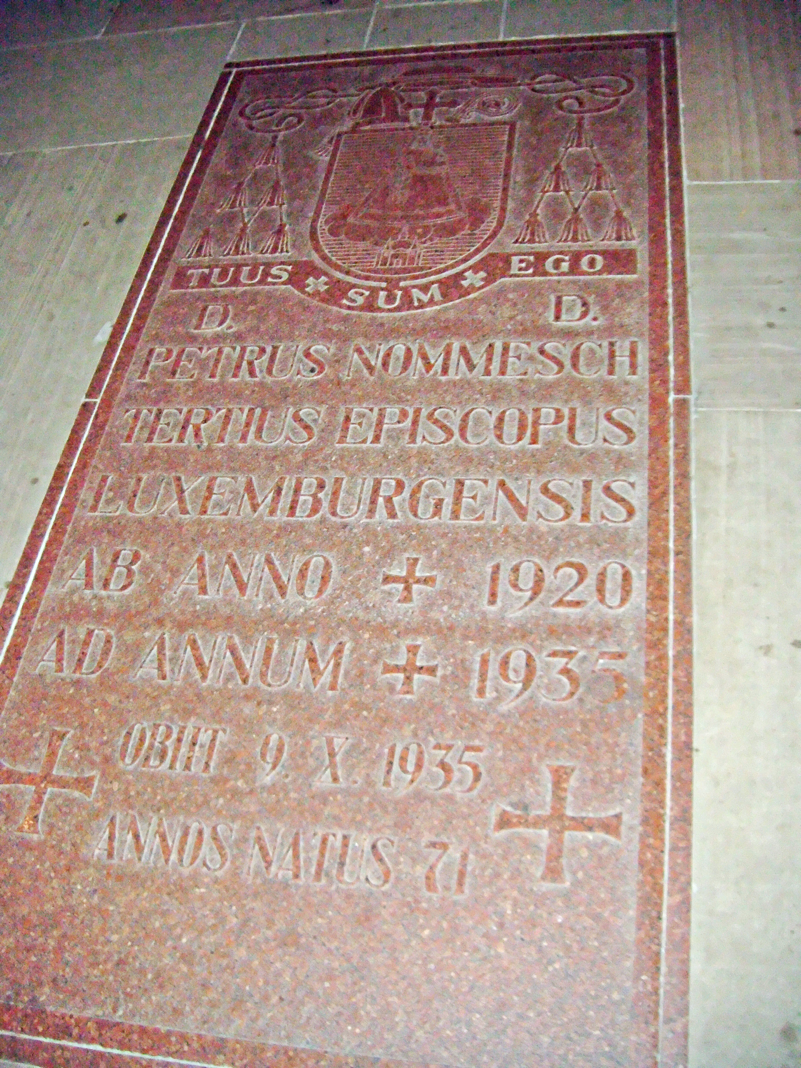 Krypta der Kathedrale Notre Dame Luxemburg (Stadt), Grab von Bischof Peter Nommesch (1864-1935)